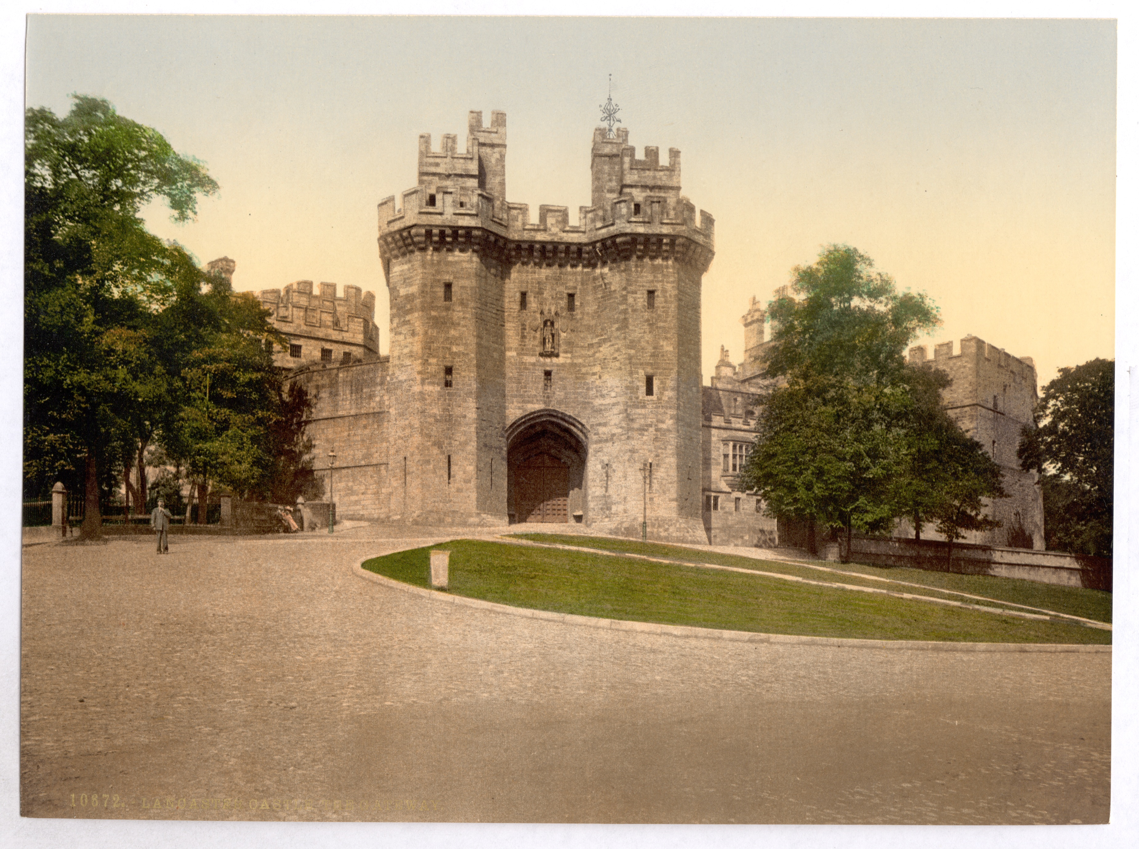 Print no. "10672".; Forms part of: Views of the British Isles, in the Photochrom print collection.; More information about the Photochrom Print Collection is available at Title from the Detroit Publishing Co., Catalogue J-foreign section, Detroit, Mich. : Detroit Publishing Company, 1905.